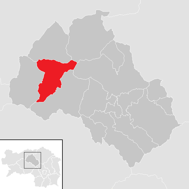 District Leoben